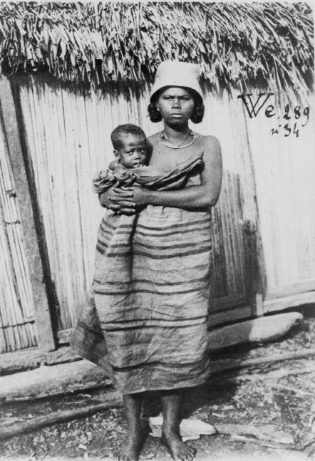 Tanala woman in Madagascar (1908)